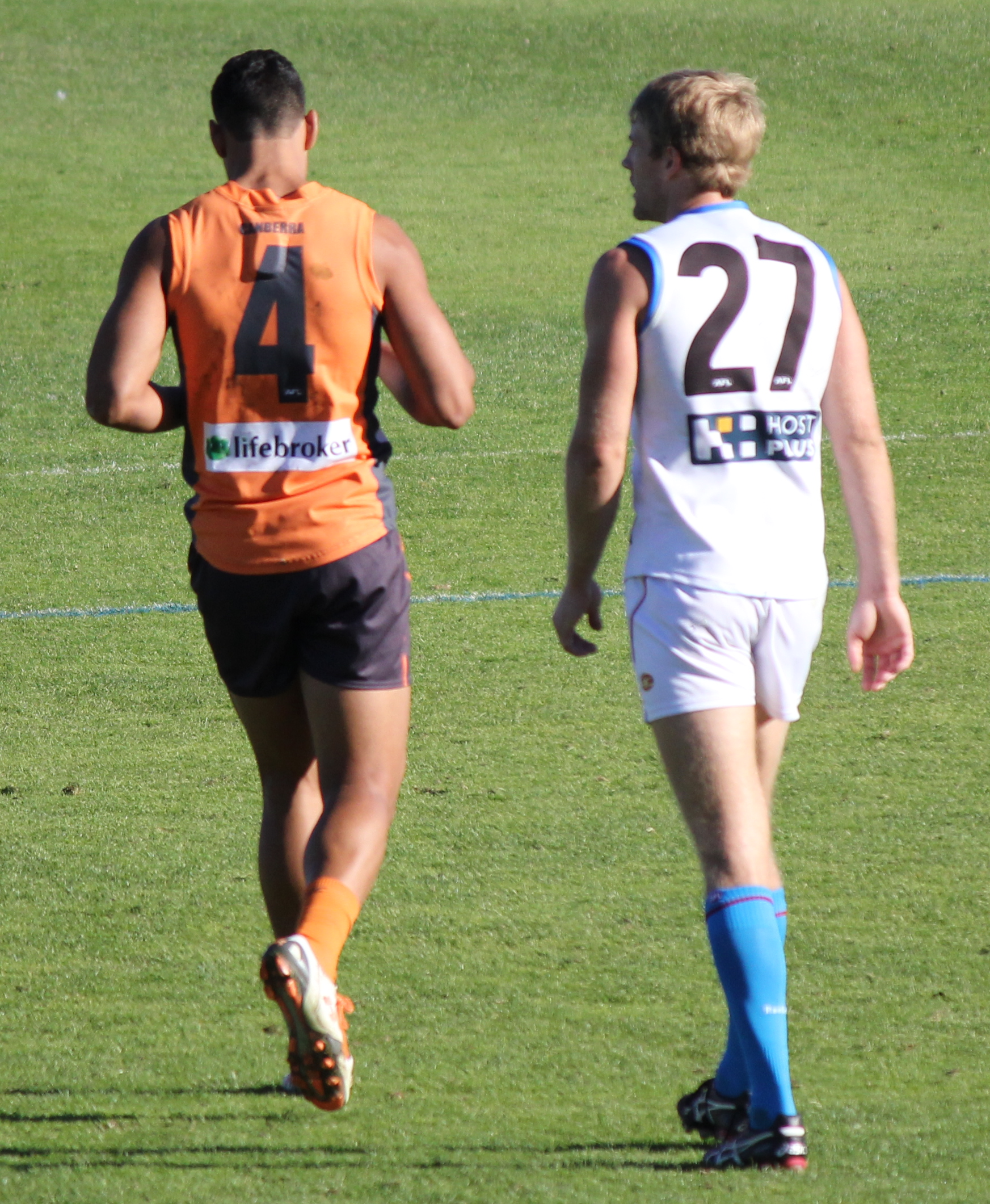 2012 Round 7. GWS Giants vs Gold Coast Suns. Manuka Oval.